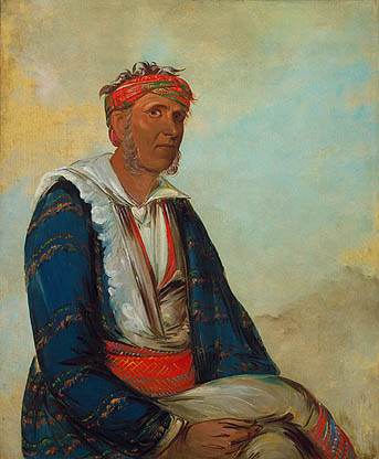 Cól-lee, a Band Chief, 1834